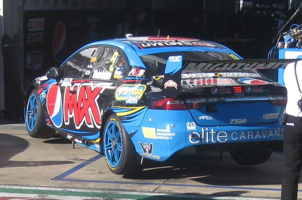 The Ford Falcon (FG X) of Mark Winterbottom at the 2015 Clipsal 500 Adelaide